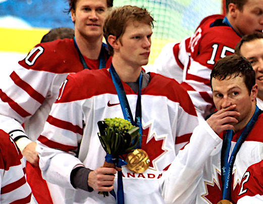 The overtime heroes, Sidney Crosby and Jarome Iginla pose together. Sidney Crosby became a Canadian God after scoring the overtime winning goal, assisted by Jarome Iginla, who made no mistake in passing it to the dynamic superstar.